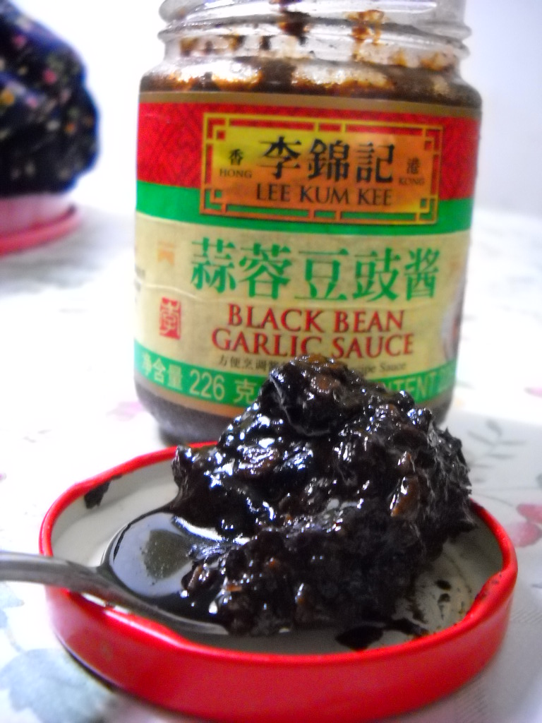 Black bean garlic sauce